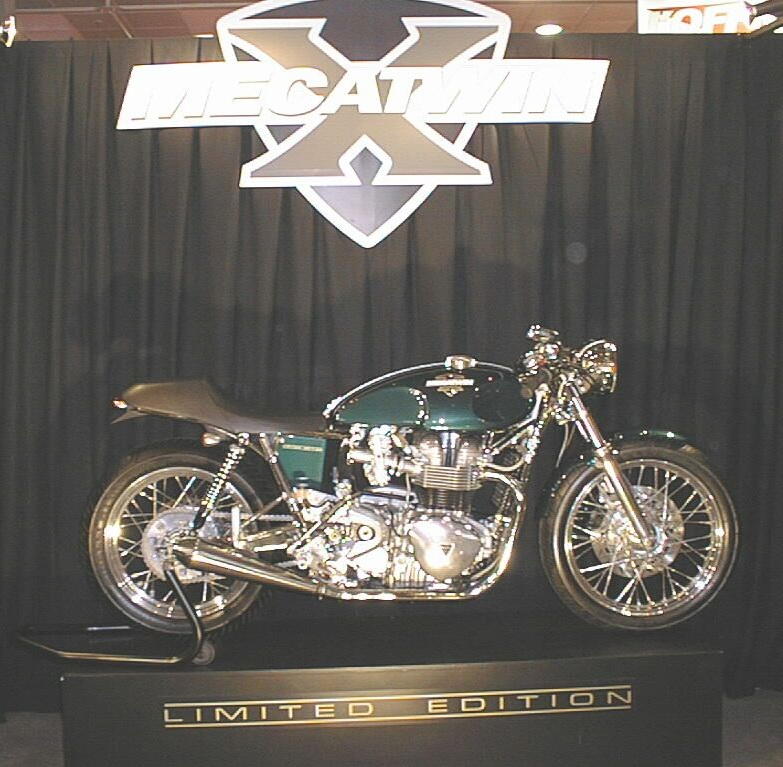 Model by X Company/Mécatwin based on Triumph - Salon de la Moto et du Scooter de Paris 2003.